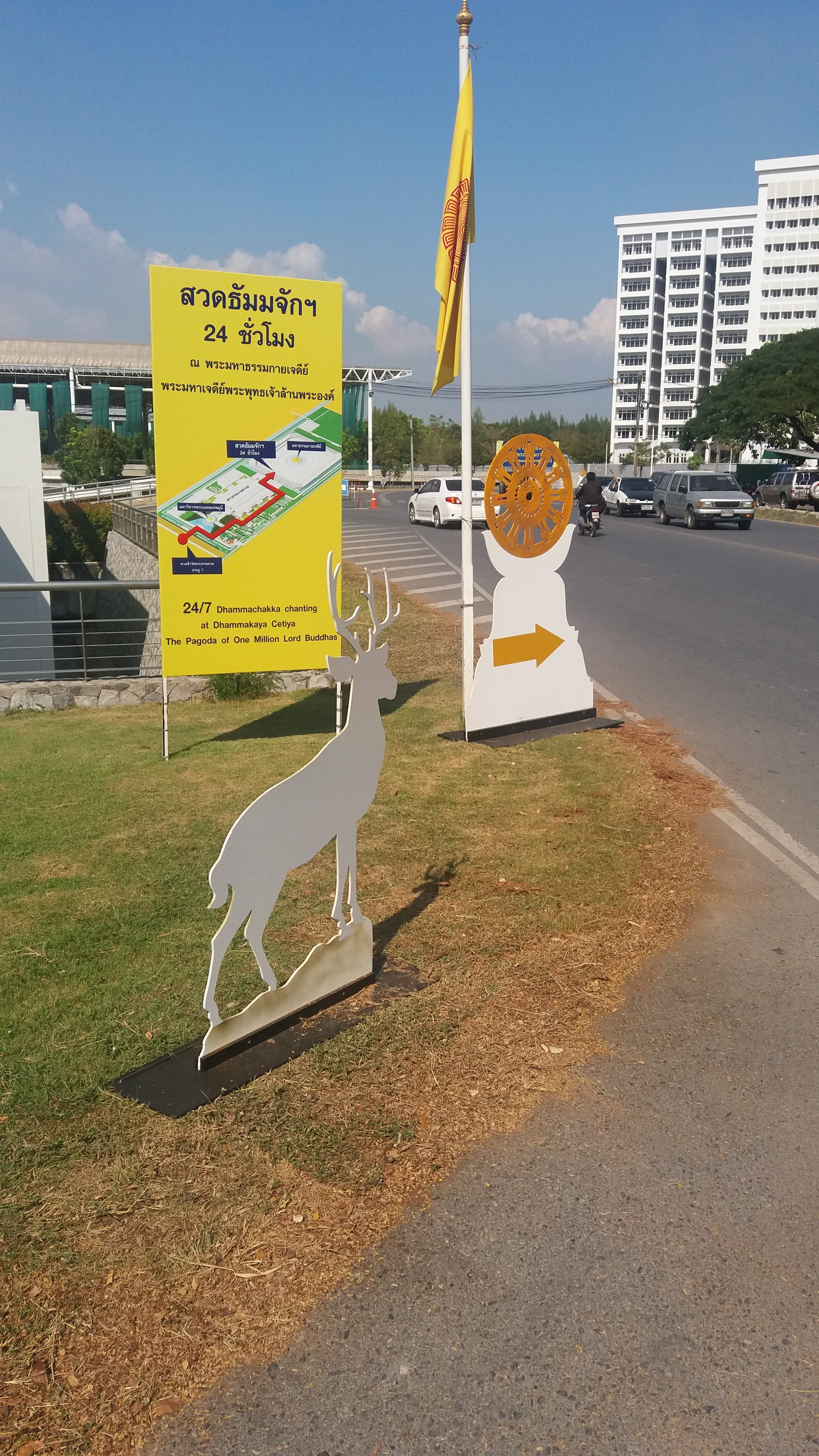 Signs at roadside inviting people to chant the Dhammacakkappavattana Sutta